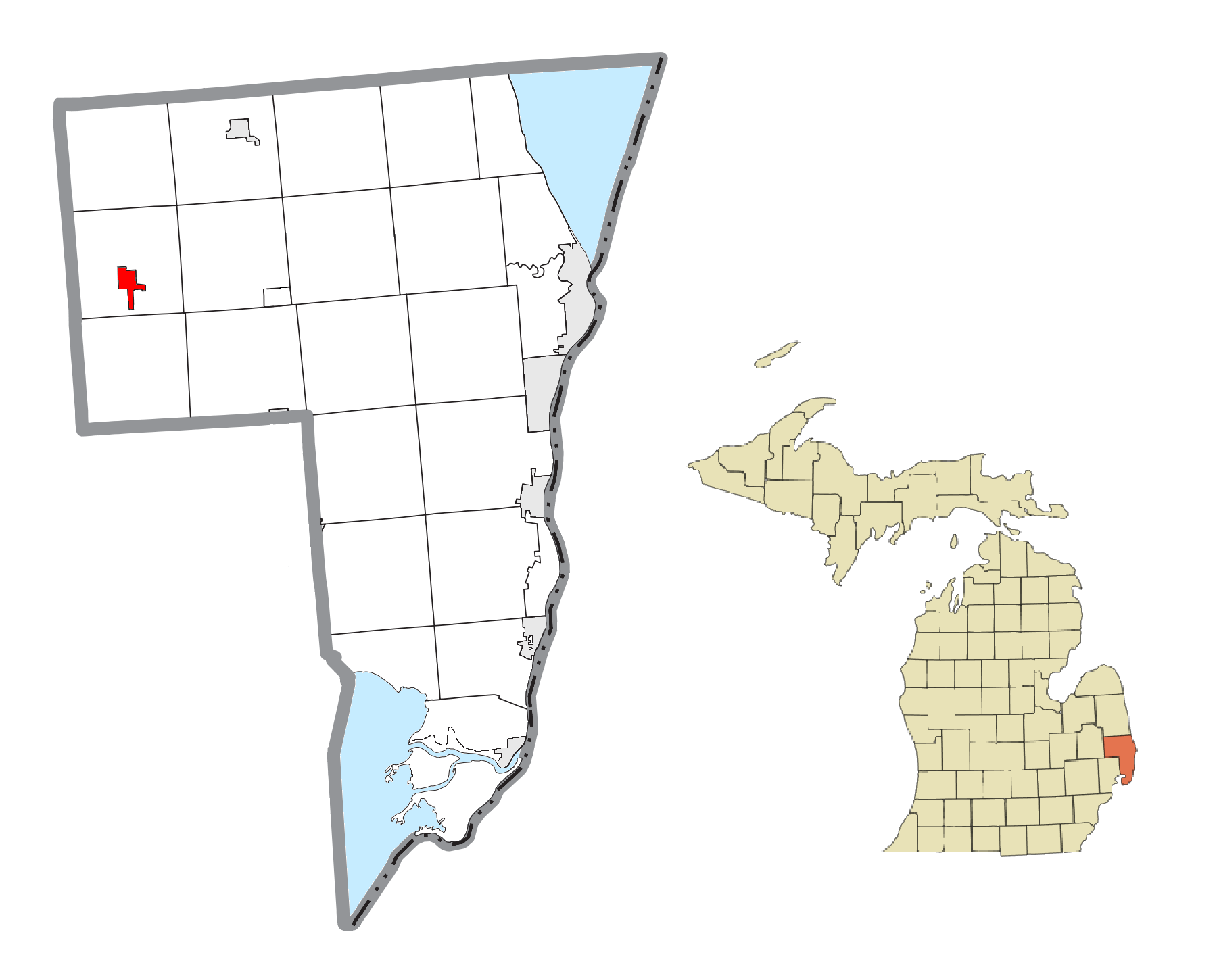 Capac, MI